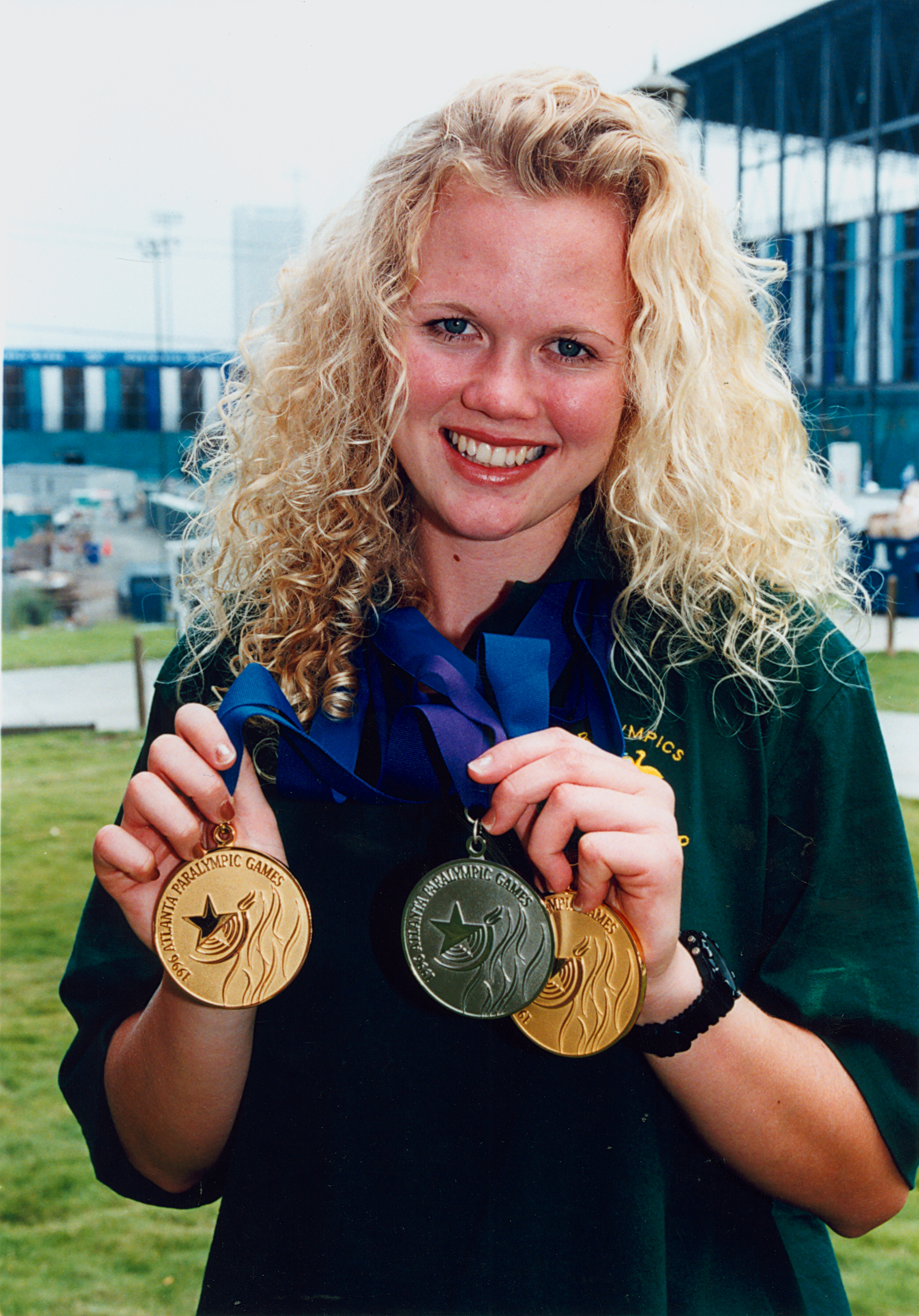 Australian athlete Katrina Webb displays the two gold and one silver medal she won in athletics at the 1996 Atlanta Paralympic Games